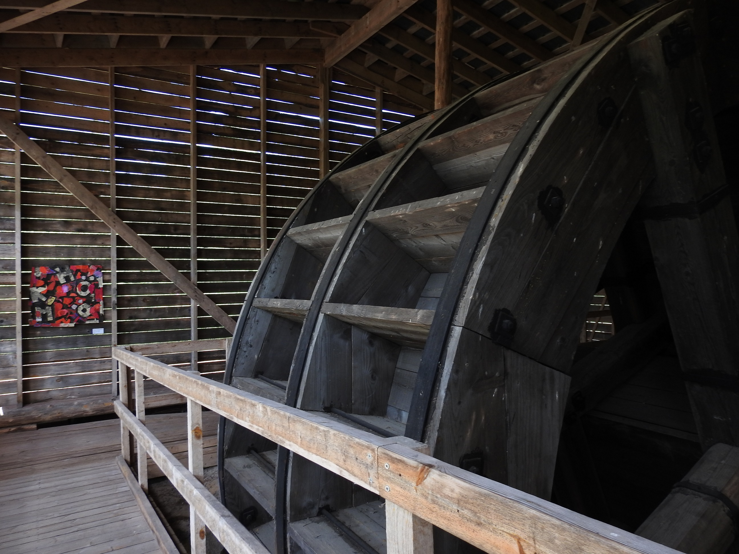 Möhkö ironworks museum 2016